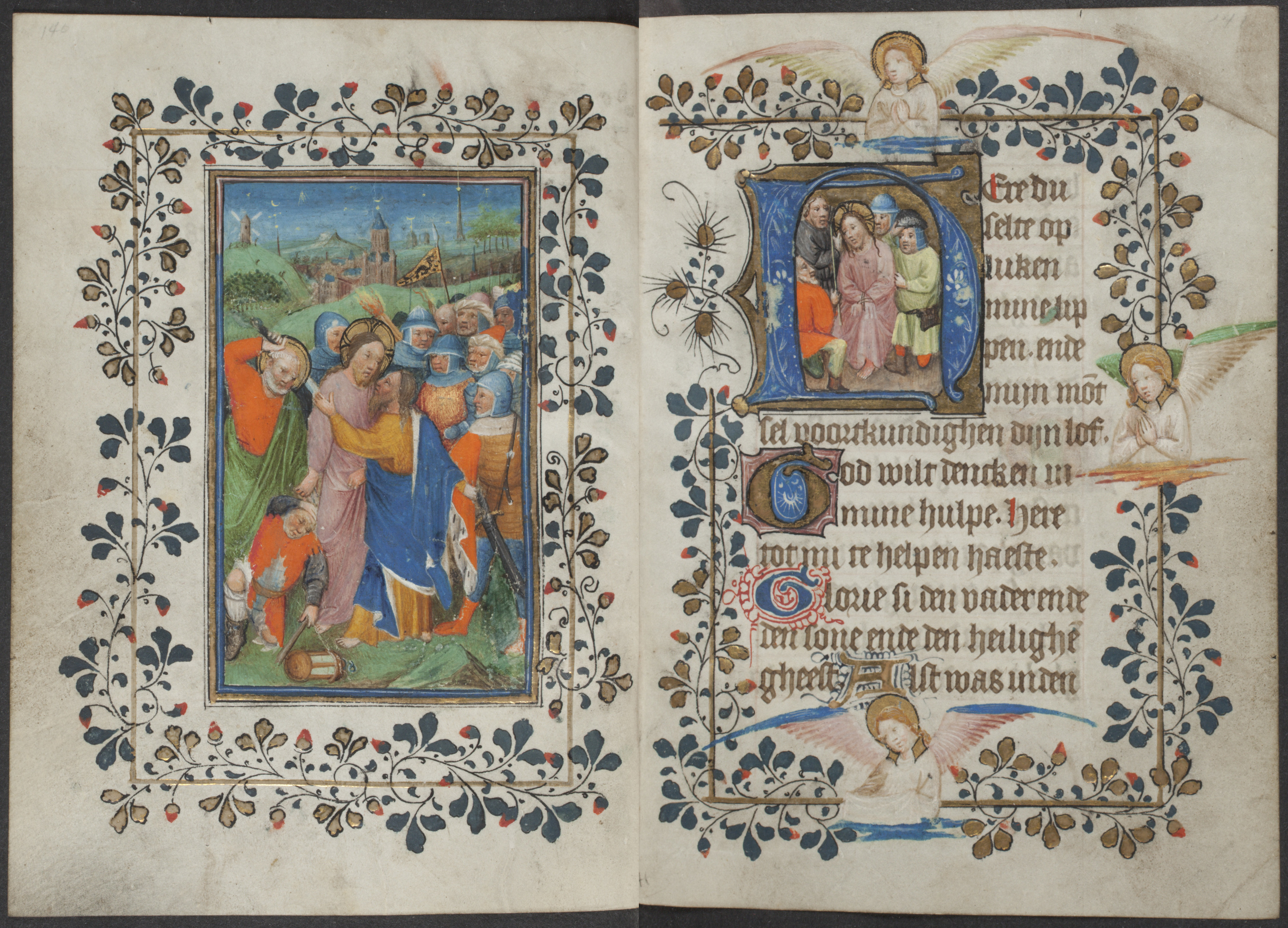 Lefthand side folio 070v and righthand side folio 071r from the Book of hours by the Master(s) of Zweder van Culemborg Illuminations on the left folio 070v The full-page miniature shows The arrest of Christ: the kiss of Judas; the ear of Malchus cut off by St. Peter The kiss of judas: accompanied by soldiers with torches and lanterns, he kisses christ (73D313) Peter draws his sword and cuts off malchus' ear (73D3141) Illuminations on the right folio 071r The historiated initial shows The tortures of Christ: Christ is mocked Roman script; scripts based on the roman alphabet (h) (49L12(H)) Historiated initial (49L171) Mockings of christ, who may be blindfolded (73D353)